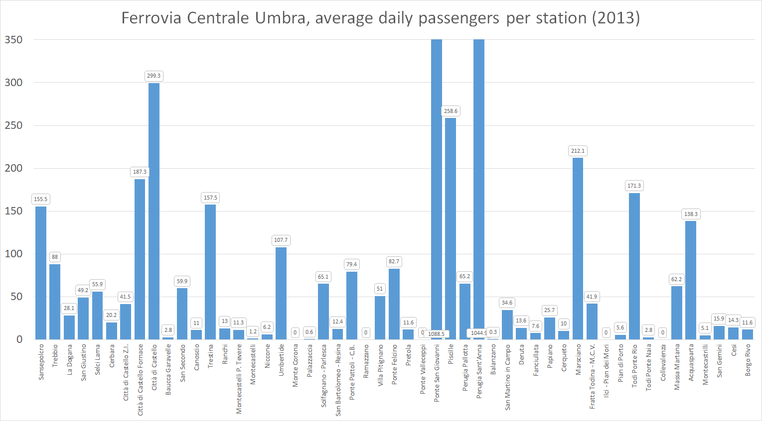 Ferrovia Centrale Umbra, average daily passengers per station (2013). Data source: Piano regionale dei trasporti 2014-2024, pp. 120-121.